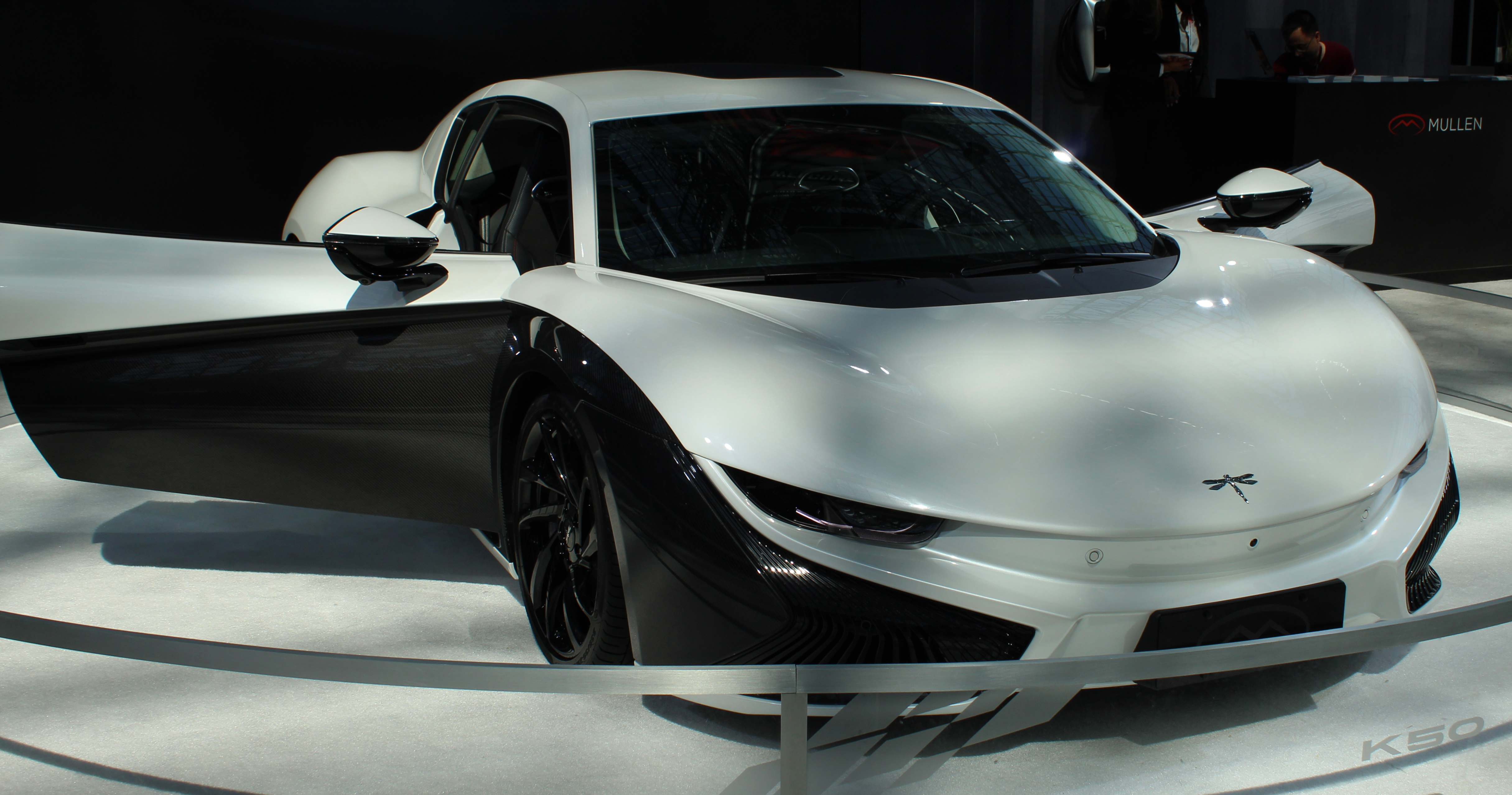 A Qiantu (前途) K50 photographed during the 2019 New York International Auto Show, in Hudson Yards, Manhattan, NYC